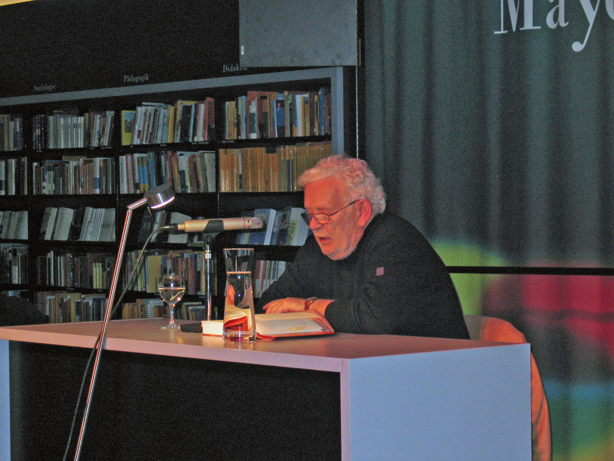 The writer Jacques Berndorf in Cologne, 2007